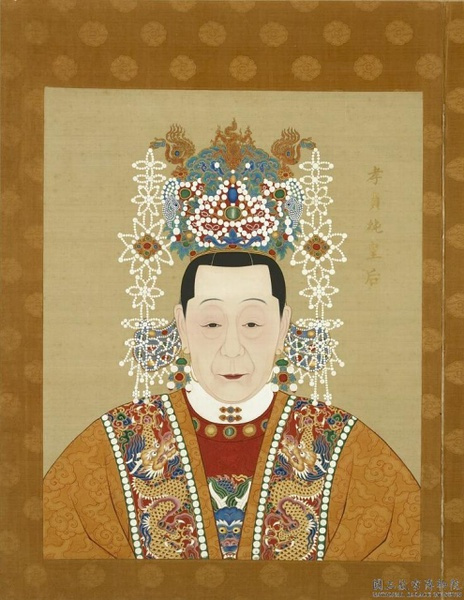 Portrait of Empress Xiaozhen of Ming Dynasty China